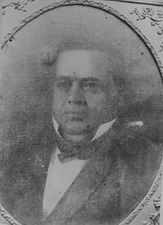 Image of Dixon Hall Lewis taken from the US Congress Biographical Directory ([1])